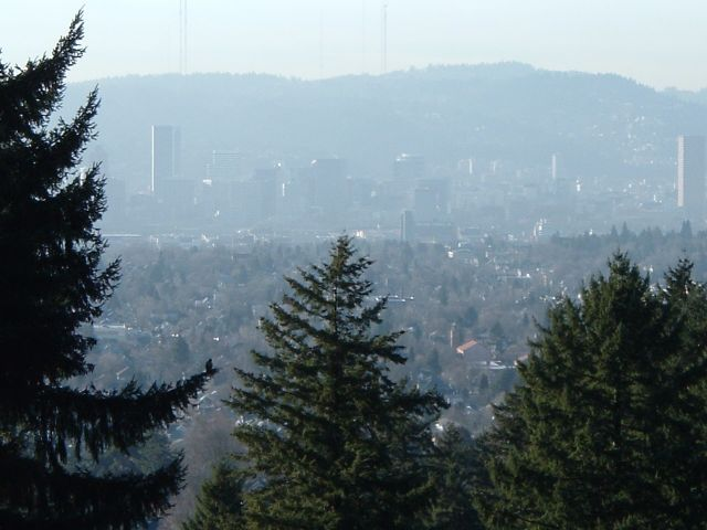 Mt. Tabor Park: View of Downtown Portland.